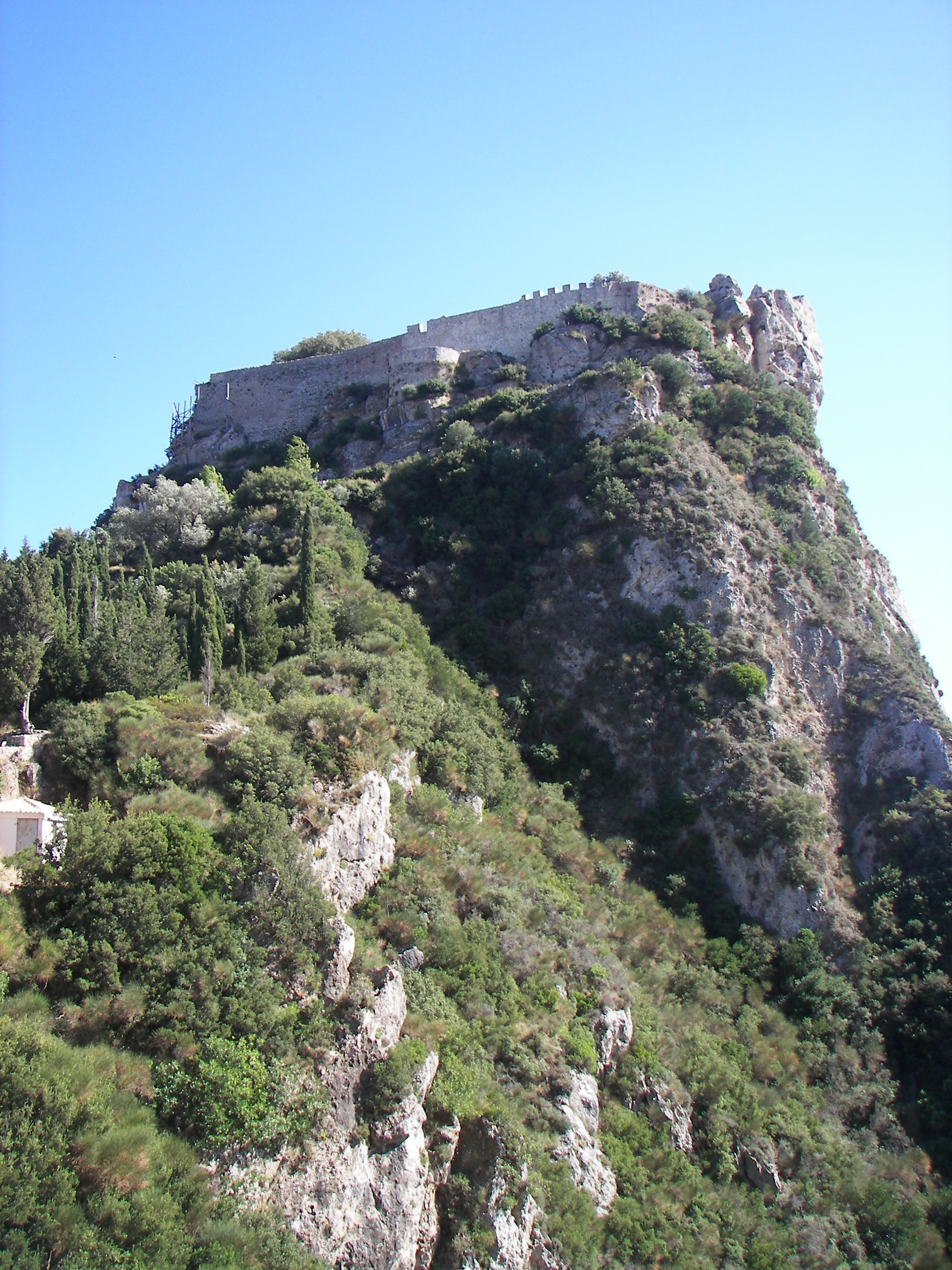 I am the author. Tasoskessaris 23:07, 5 September 2006 (UTC)